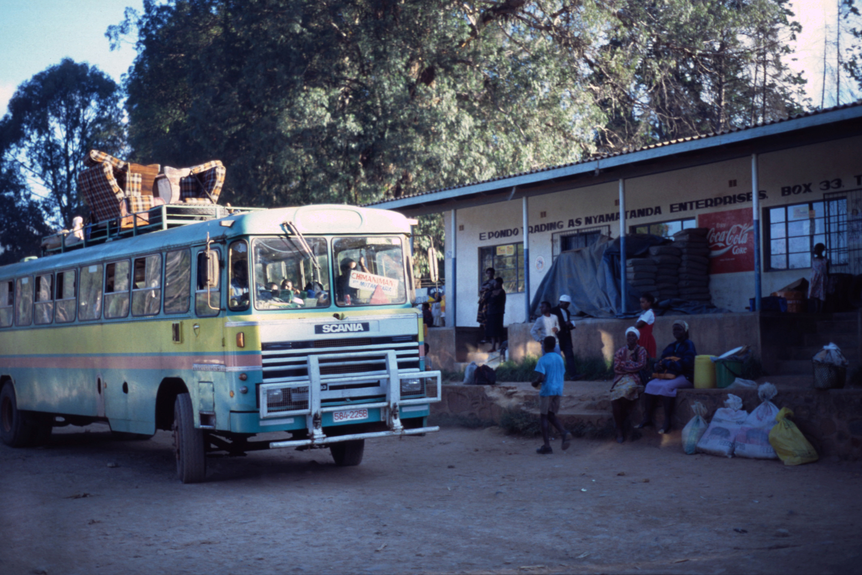 Chimanimani Village (Bus station) in Zimbabwe